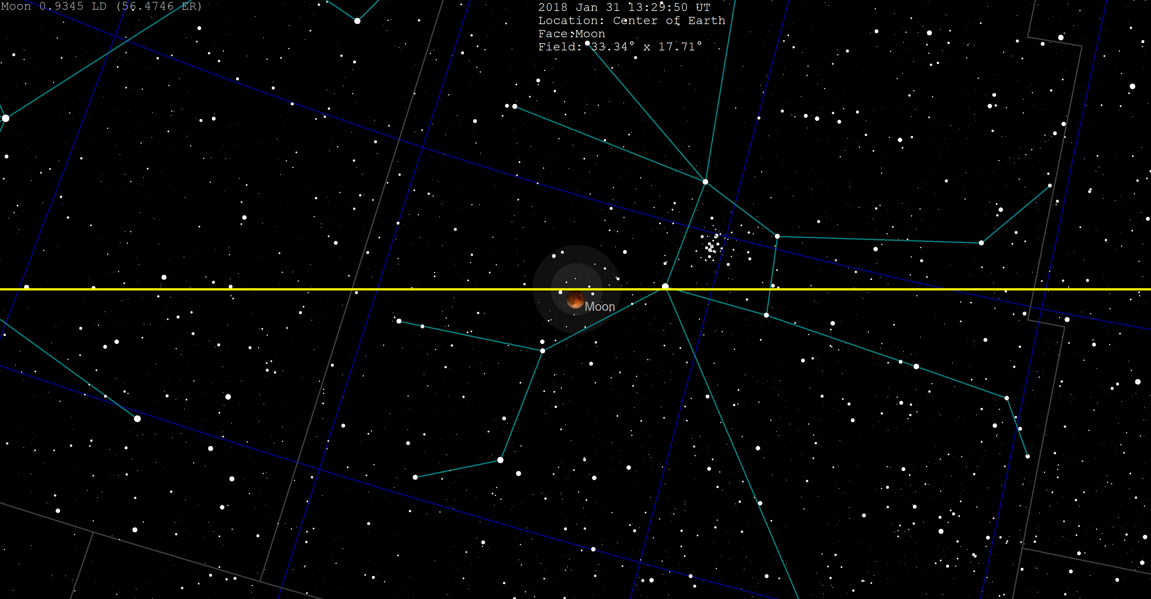 January 2018 lunar eclipse constellation view